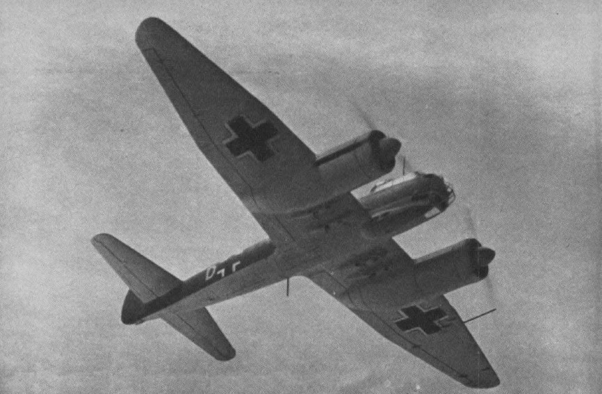 Photo of a German Junkers Ju 88A bomber, ca. 1941/42